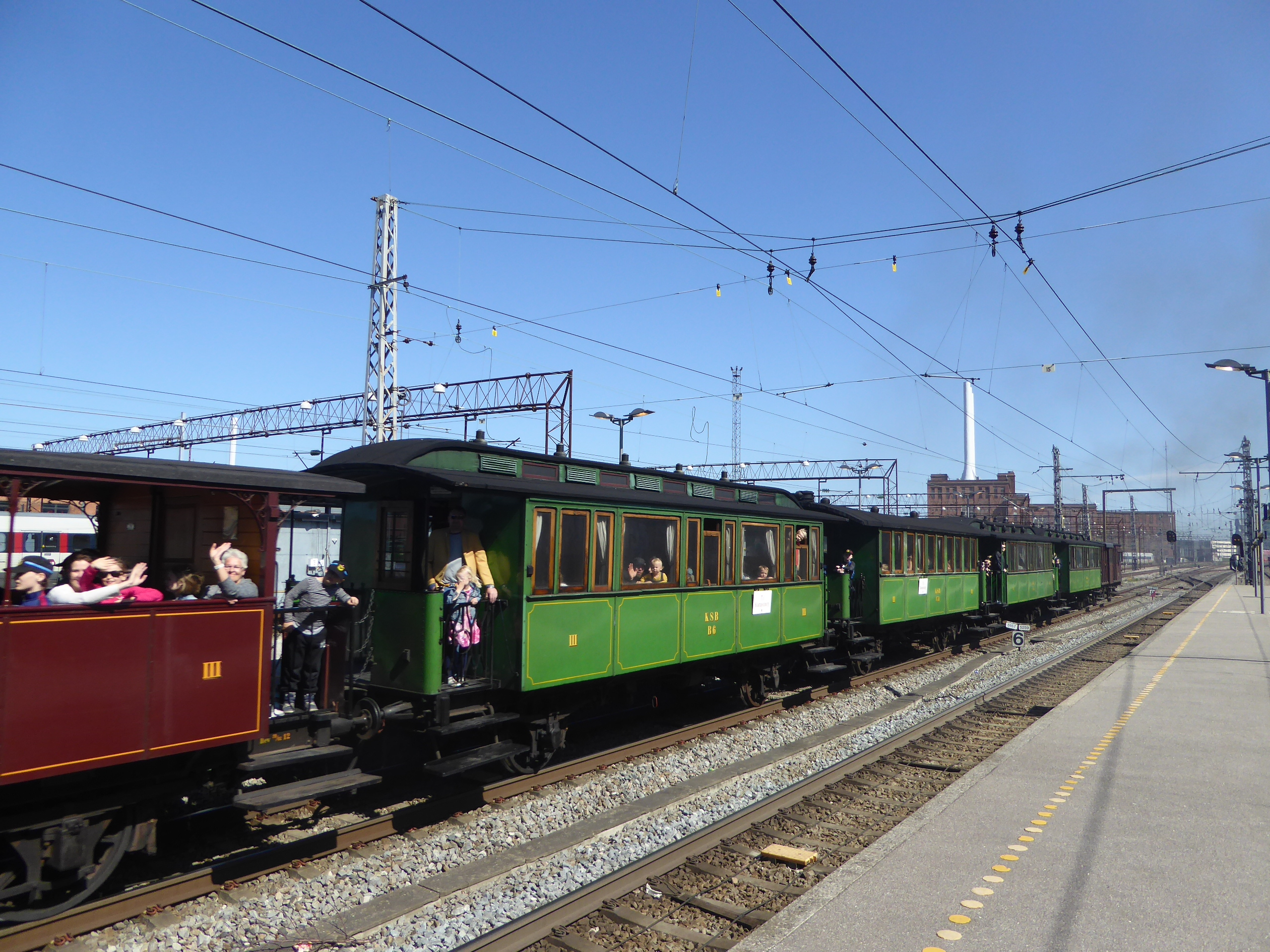 Heritage train of Nordsjællands Jernbaneklub from Ballerup to Klampenborg at Svanemøllen Station in Copenhagen. Four green railway coaches of Slangerupbanen: KSB B 6 from 1905, KSB C 51 from 1905, KSB C 40 from 1907 and KSB A 6 from 1907.